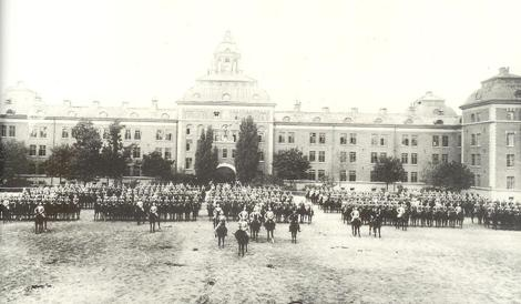 Parade of the Lifeguards 1913